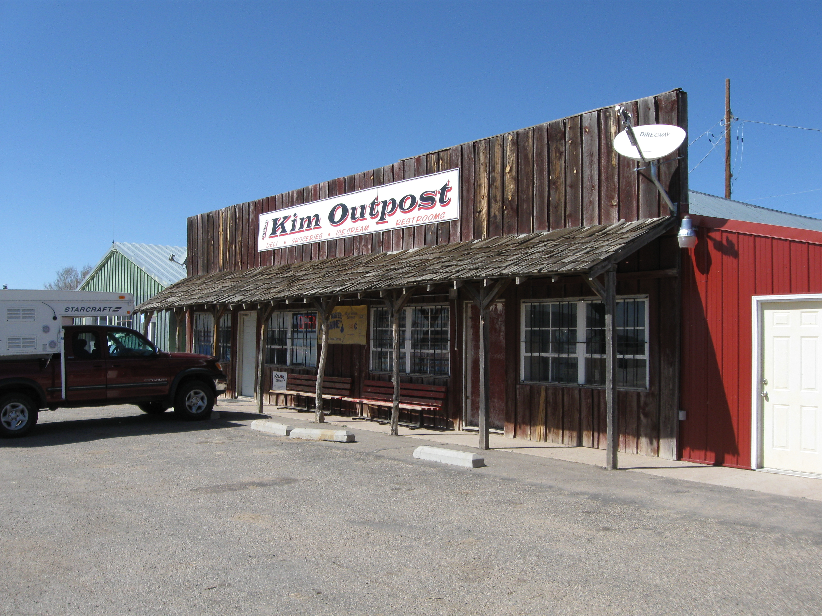 Kim outpost store in Kim Colorado.